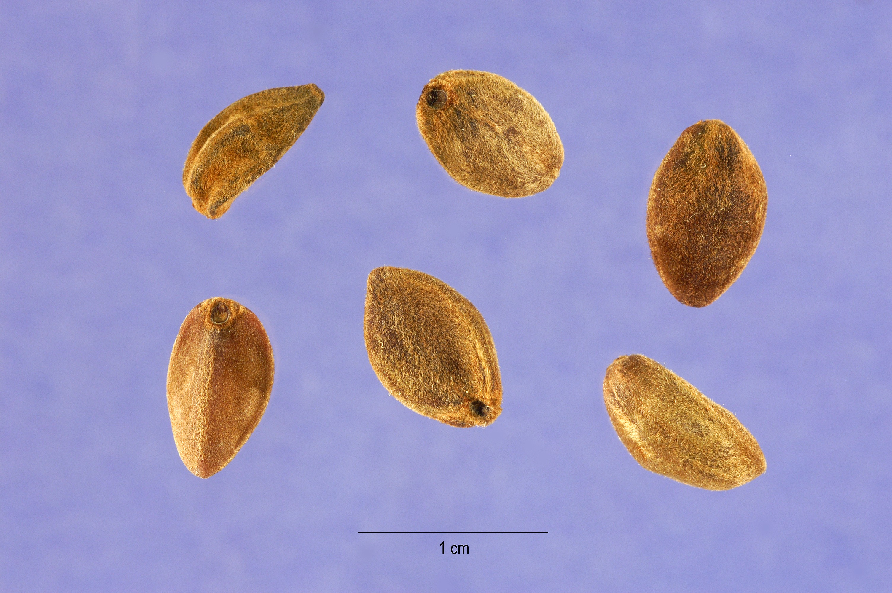 Ipomoea leptophylla seeds. Provided by ARS Systematic Botany and Mycology Laboratory. United States, MD.